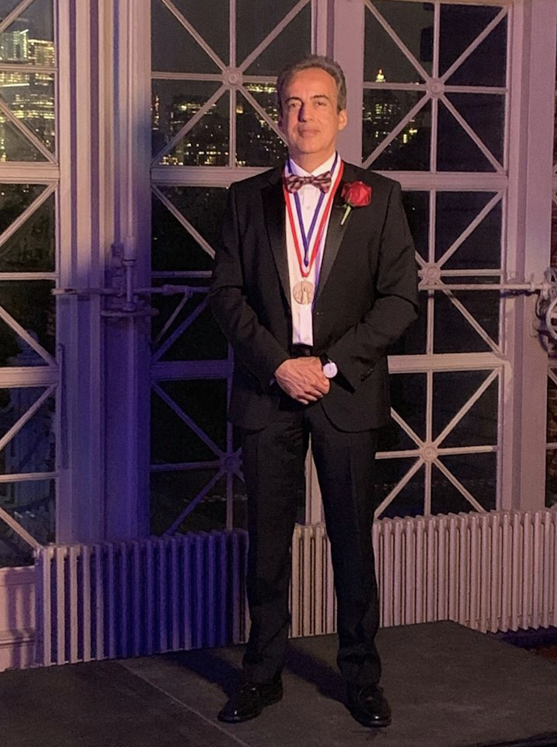 Clicked by RBSingh91